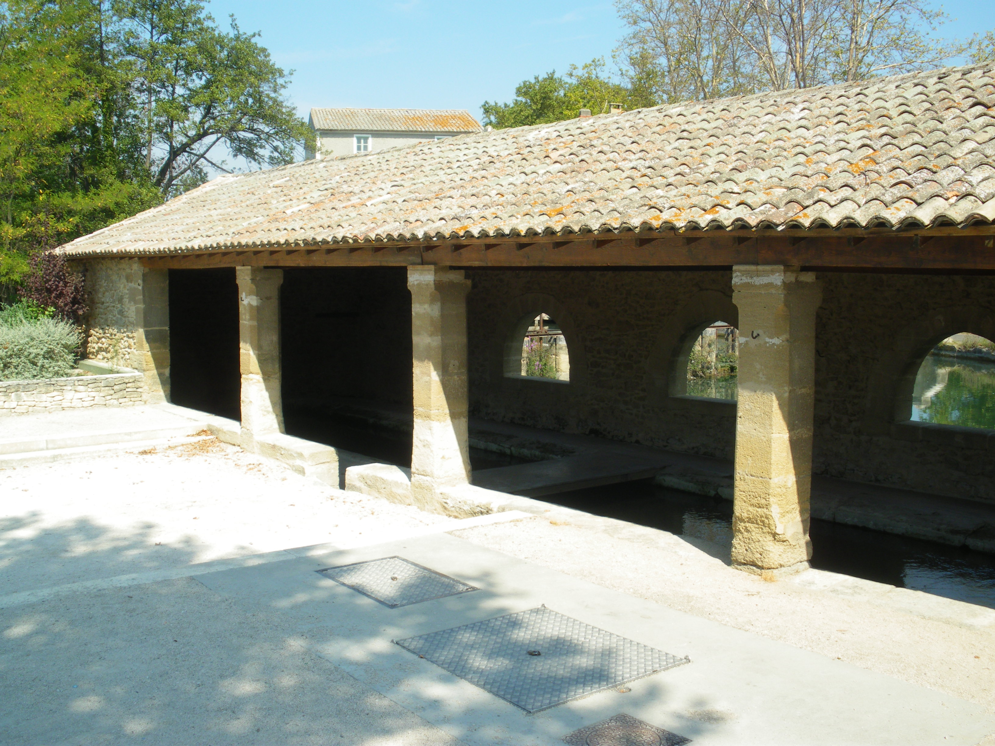 Wash houses of Saint Saturnin lès Avignon, Vaucluse, France